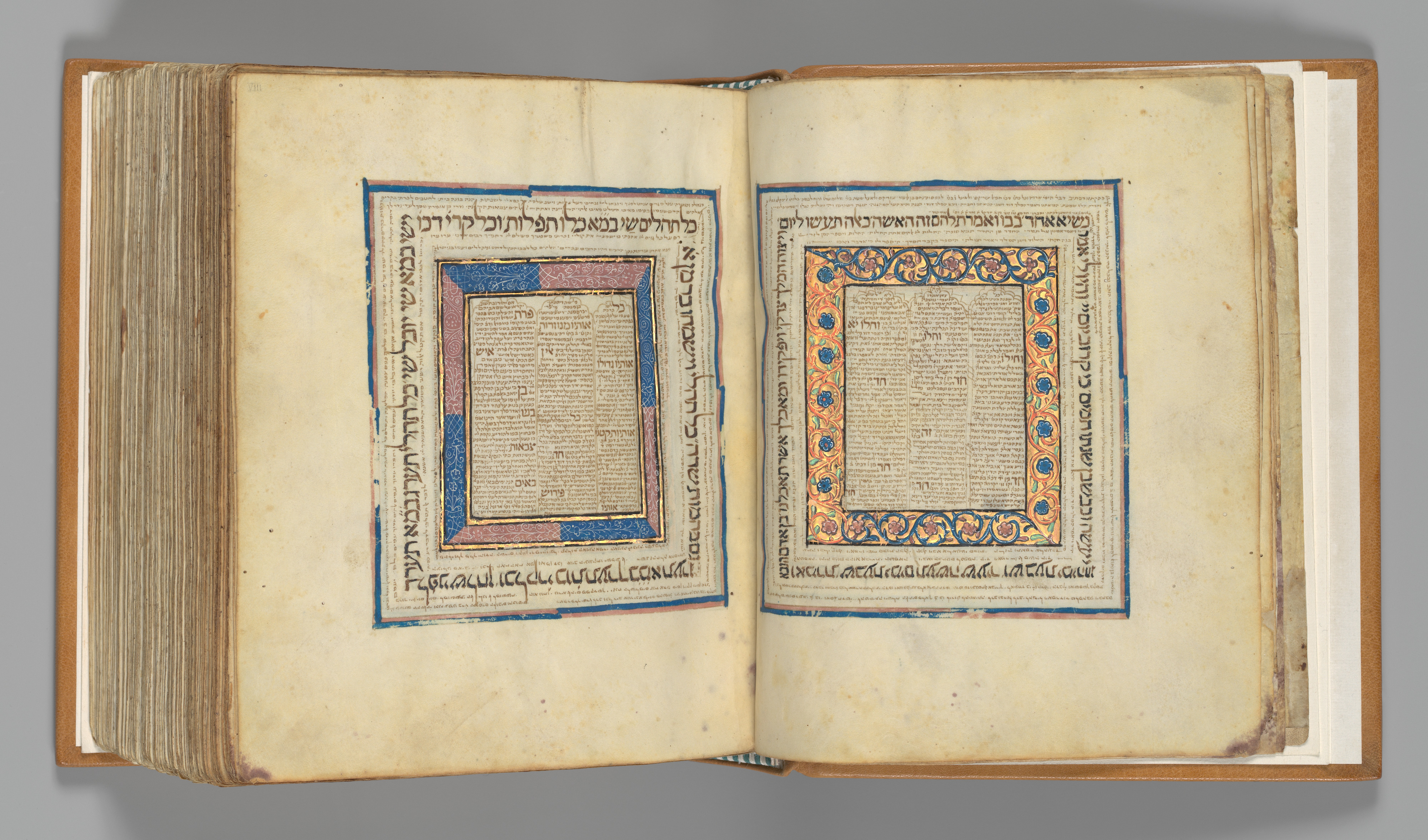 Spanish; Manuscripts and Illuminations